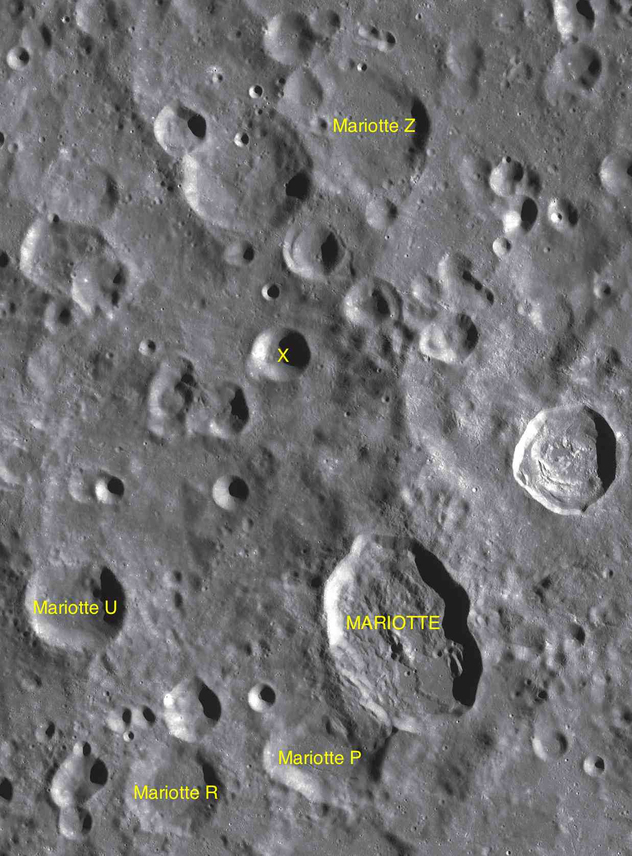 Part of the chart LAC-106 used for the presentation